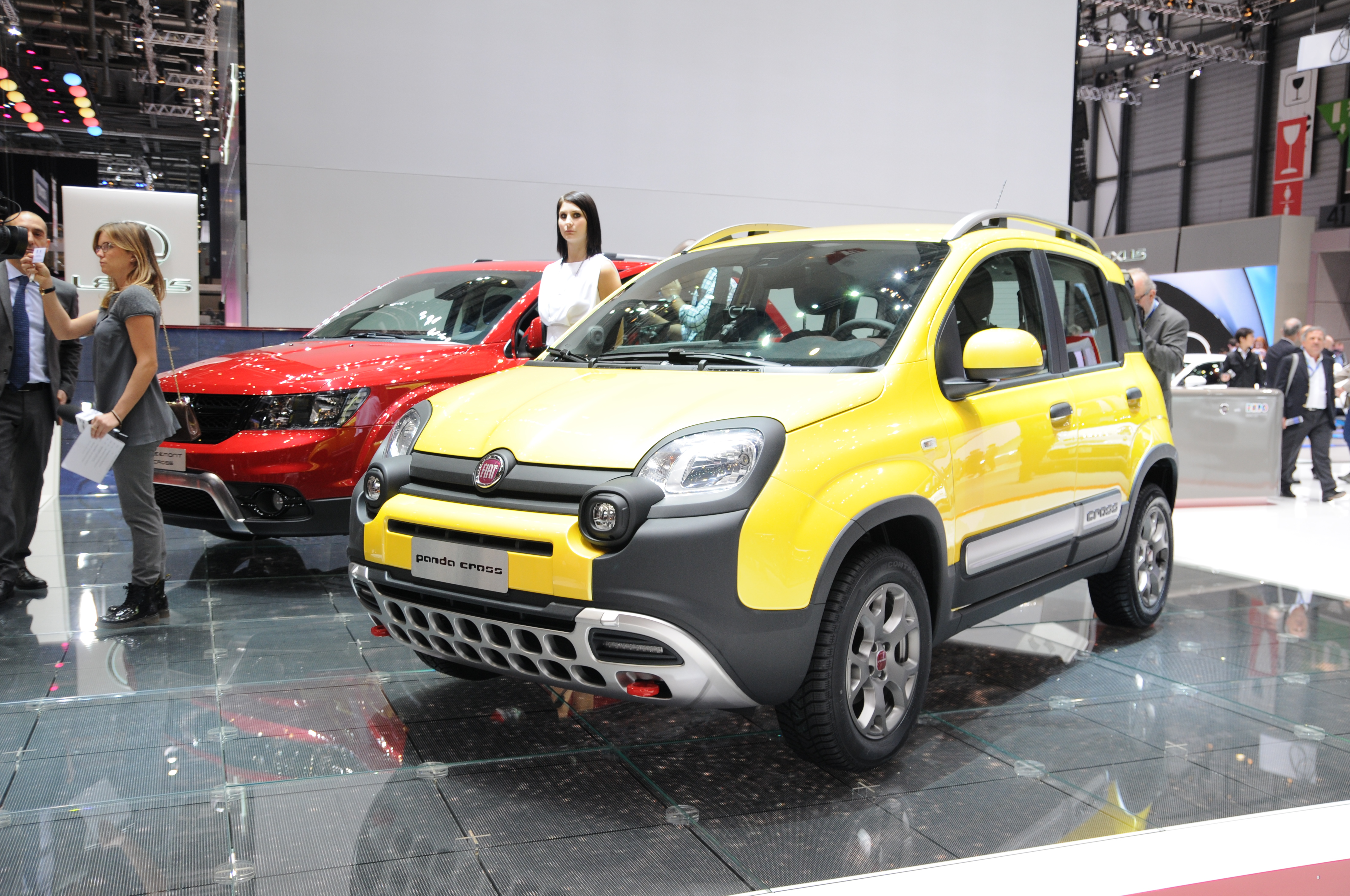 Geneva Motor Show 2014 (photo taken on the first press day)